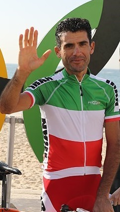 2016 Summer Olympics - Men's individual road race Cycling